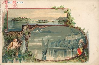 A souvenir card of Mainau, Germany